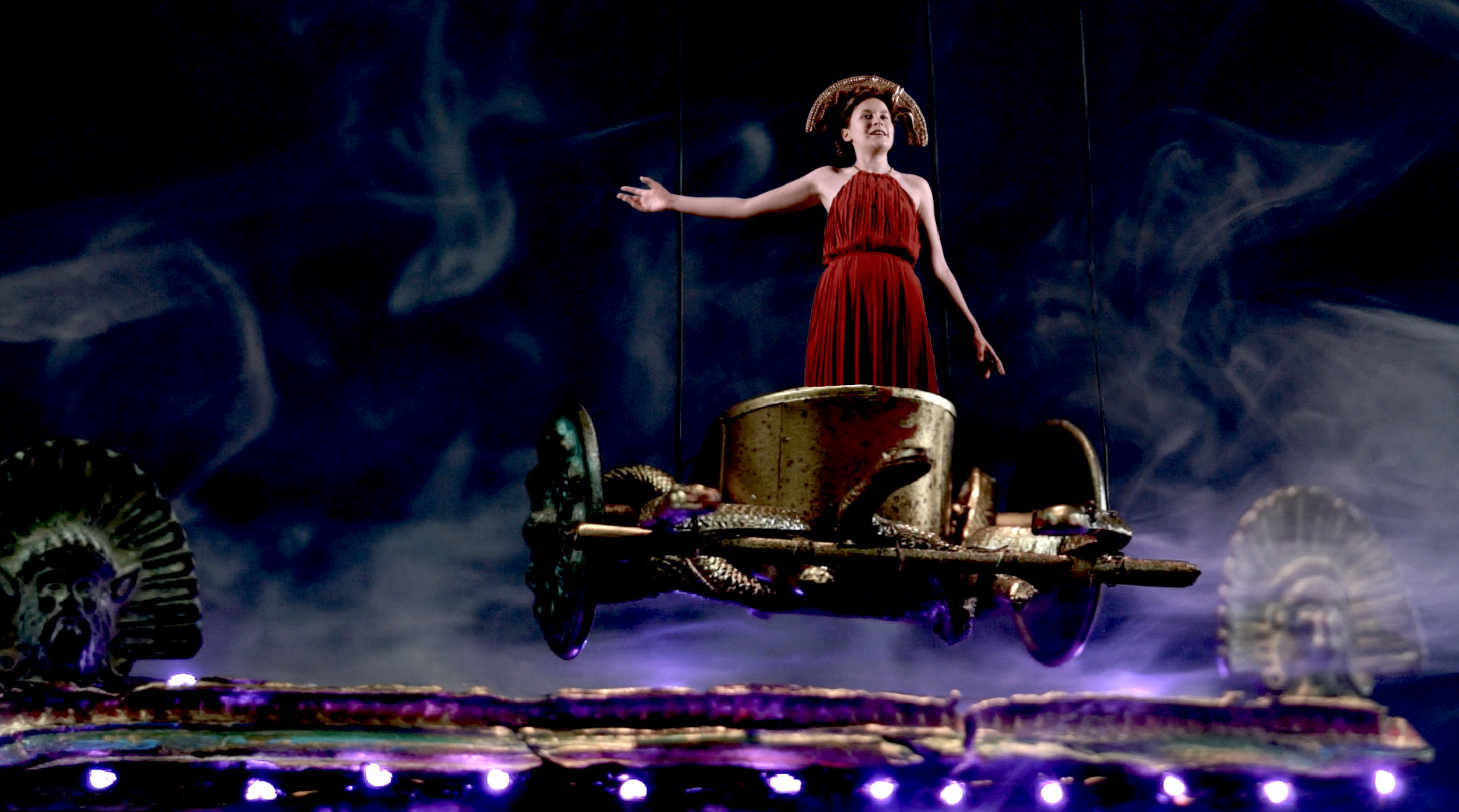 Olivia Sutherland stars in MacMillan Films staging of Medea.